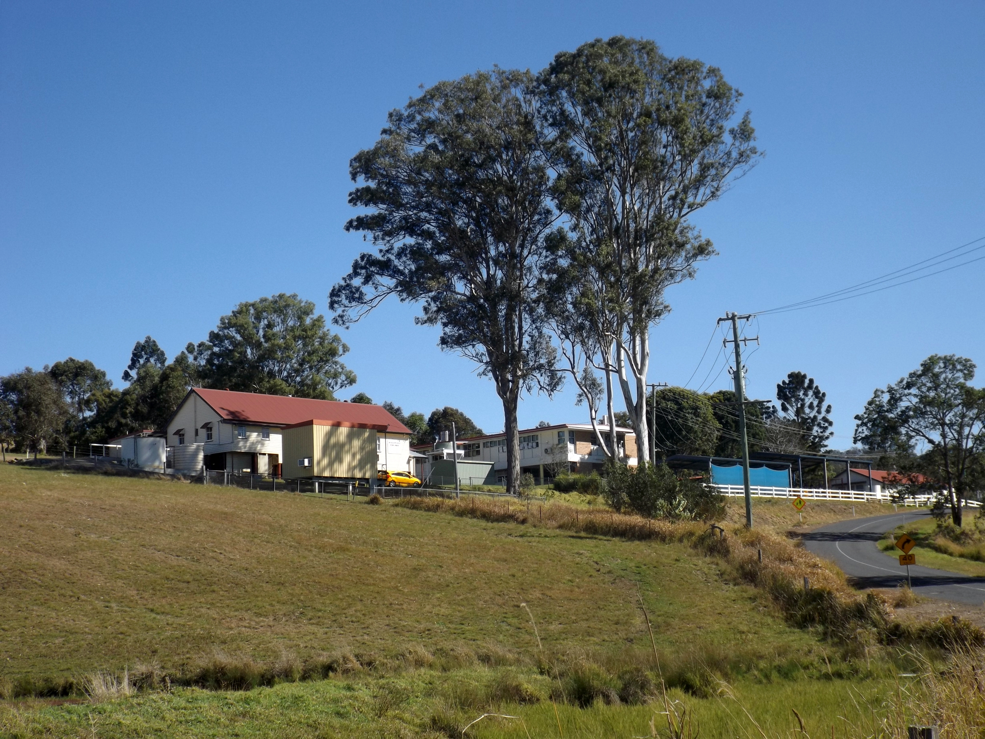 Photo of Mount Kilcoy School at Mount Kilcoy, Somerset Region, Queensland, Australia.